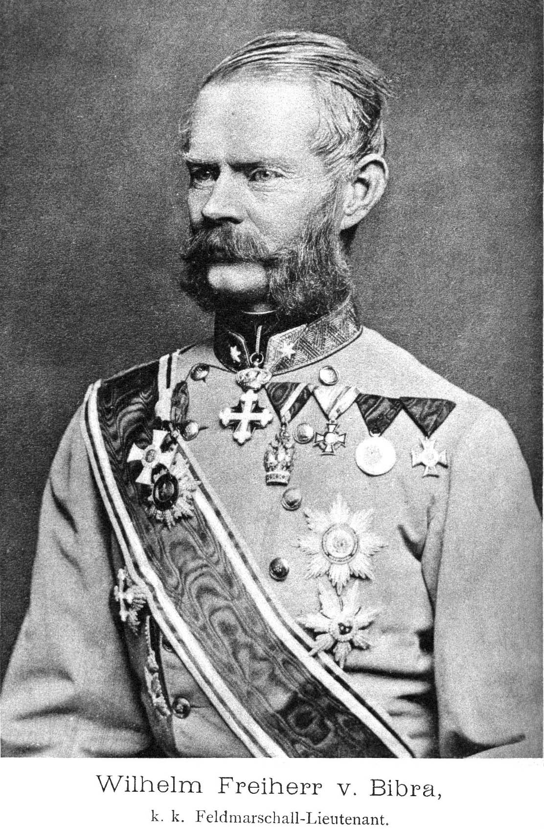 Wihelm Franz von Bibra